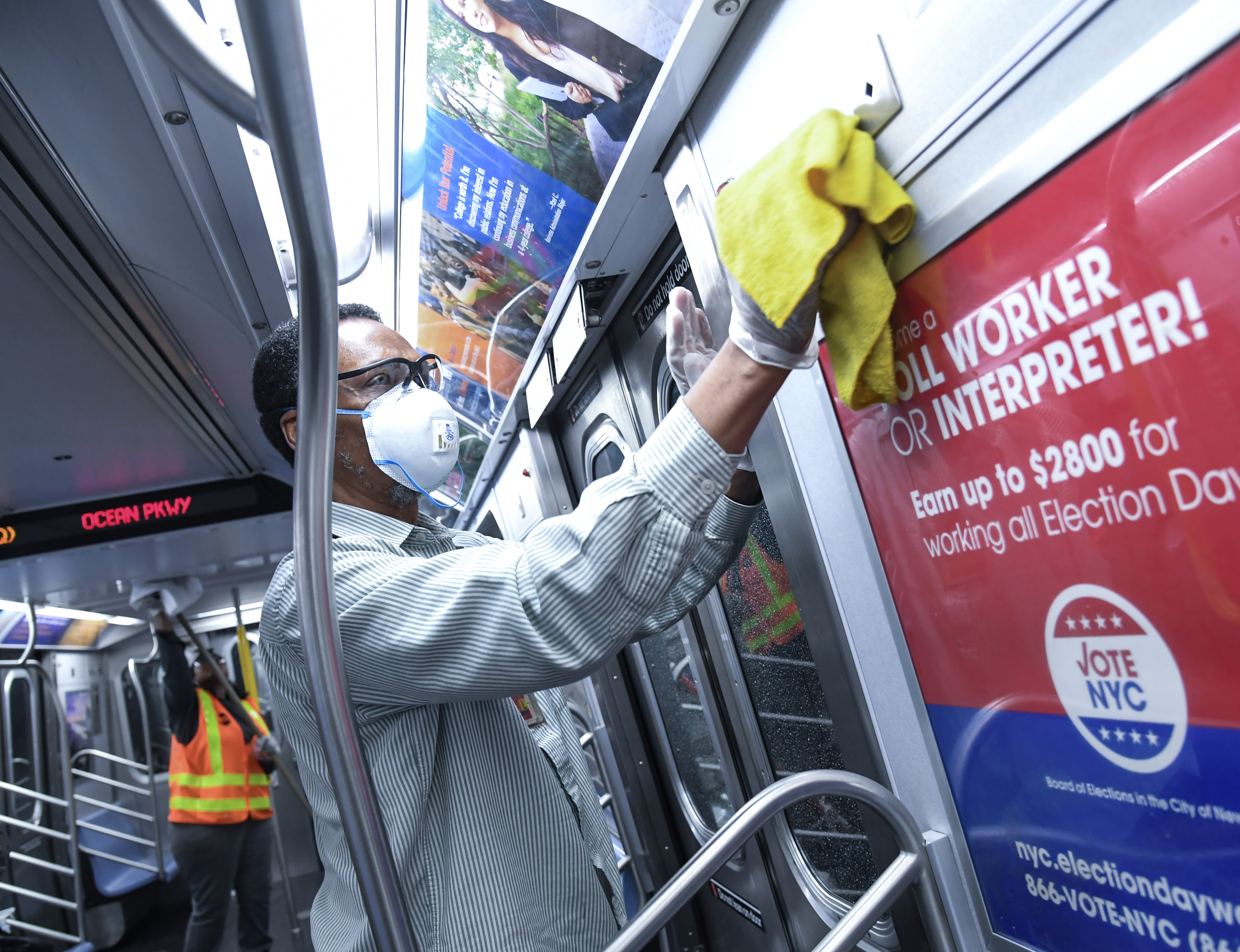 MTA New York City Transit personnel perform disinfectant sanitization aboard an R-160 train in the Coney Island Yard on Tue., March 3, 2020, as a precautionary measure in response to the novel coronavirus (COVID-19). (Marc A. Hermann / MTA New York City Transit)